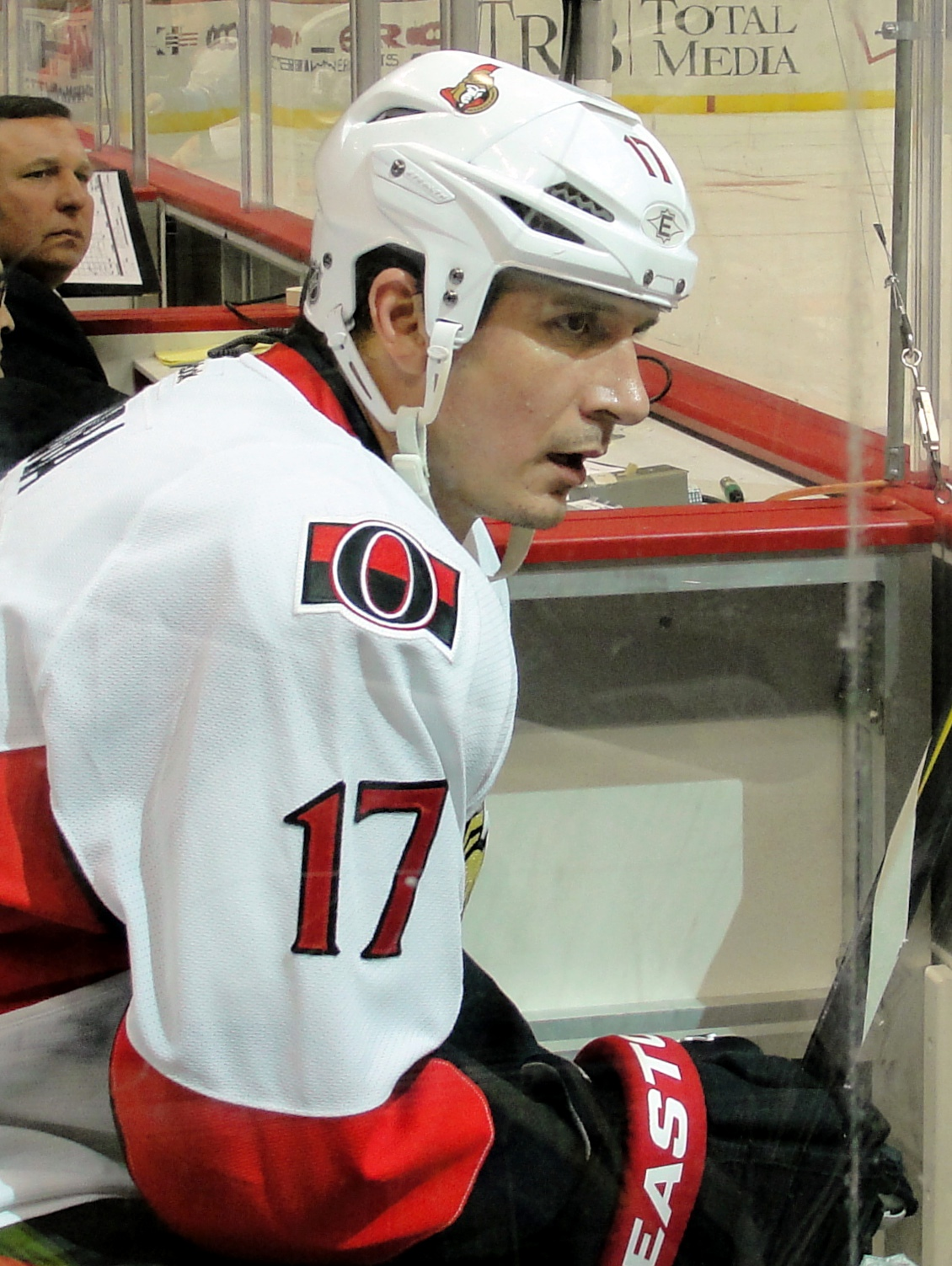 Filip Kuba of the Ottawa Senators waits in the box for his penalty to expire in a November 25, 2011 game against the Pittsburgh Penguins at Consol Energy Center in Pittsburgh, PA.